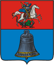 Zvenigorod (Moscow oblast), coat of arms (1781)